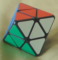 The Skewb Diamond Category:Honeycomb image